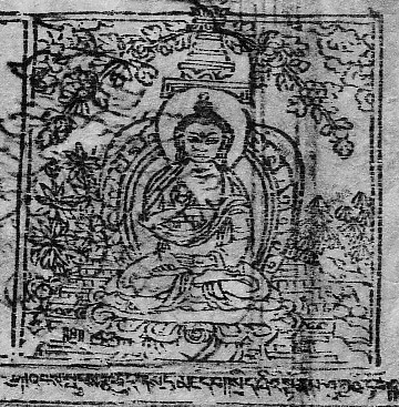 Buddha Shakyamuni Teaching the Kalacakra according to a Tibetan blockprint of the Vaidurya dkar-po (1685)